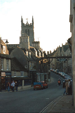 Stamford, Lincolnshire, photo by Asterion